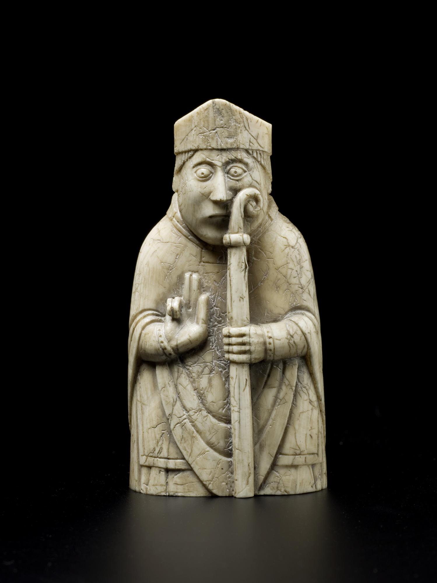 This file was uploaded as part of a partnership between Wikimedia UK and the National Museum of Scotland. This tag does not indicate the copyright status of the attached work. A normal copyright tag is still required. See Commons:Licensing. This work is free and may be used by anyone for any purpose. If you wish to use this content, you do not need to request permission as long as you follow any licensing requirements mentioned on this page.